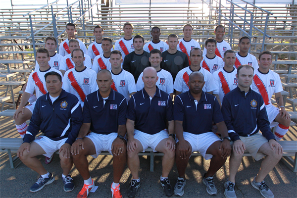 Team USA Armed Forces trials